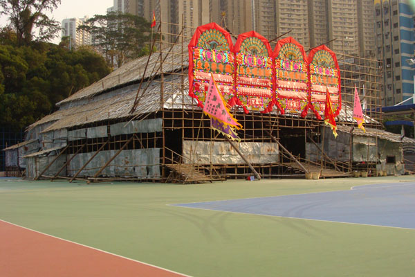 Temporary bamboo framed theatre for devotional Cantonese opera performances